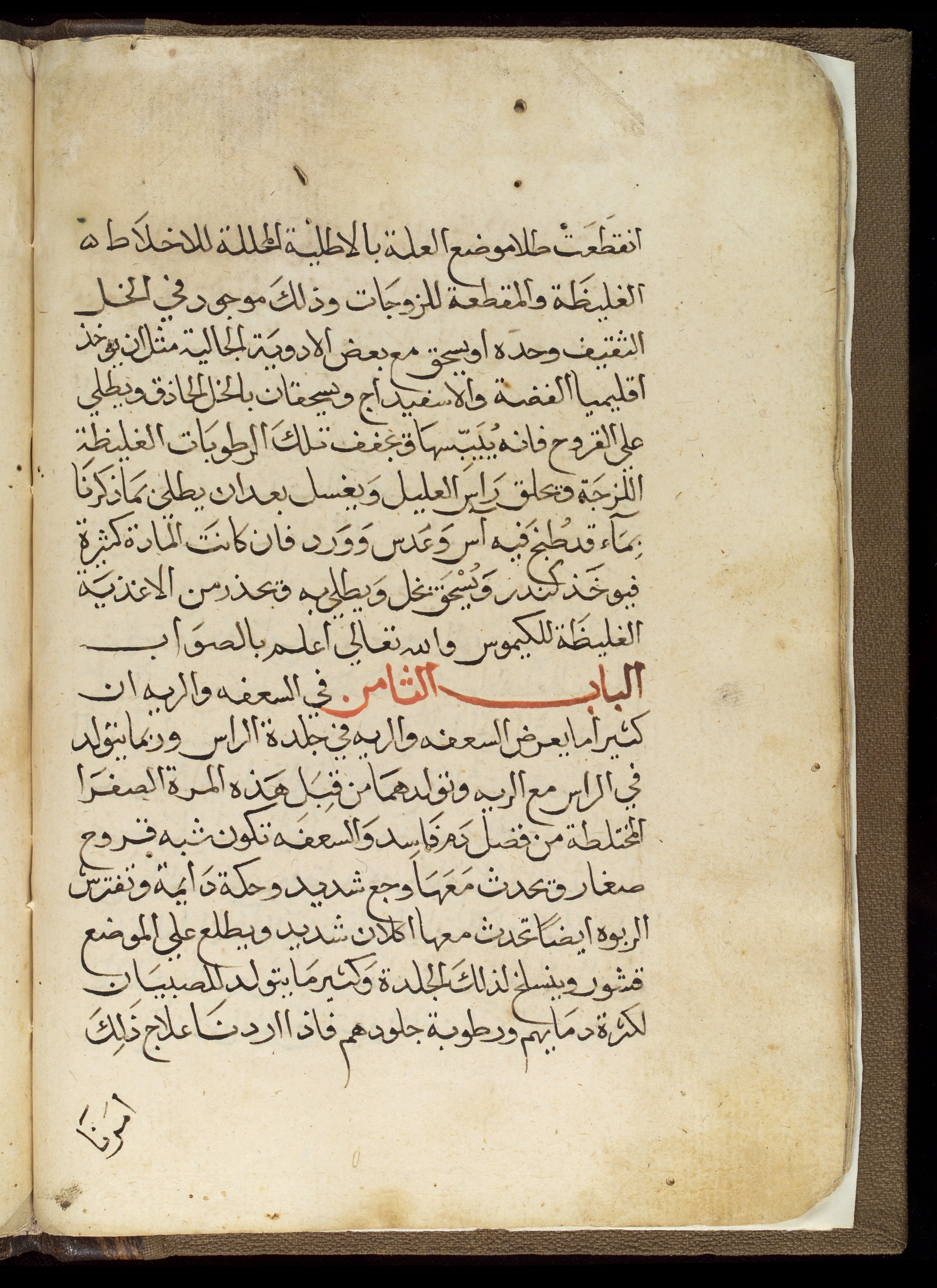 Page from Zad al-Musafir wa-Qut al-Hadir, an Arabic medical text by Ibn a-Gazzar that concerns medical opinions on various diseases Asian Collection Keywords: Arabic